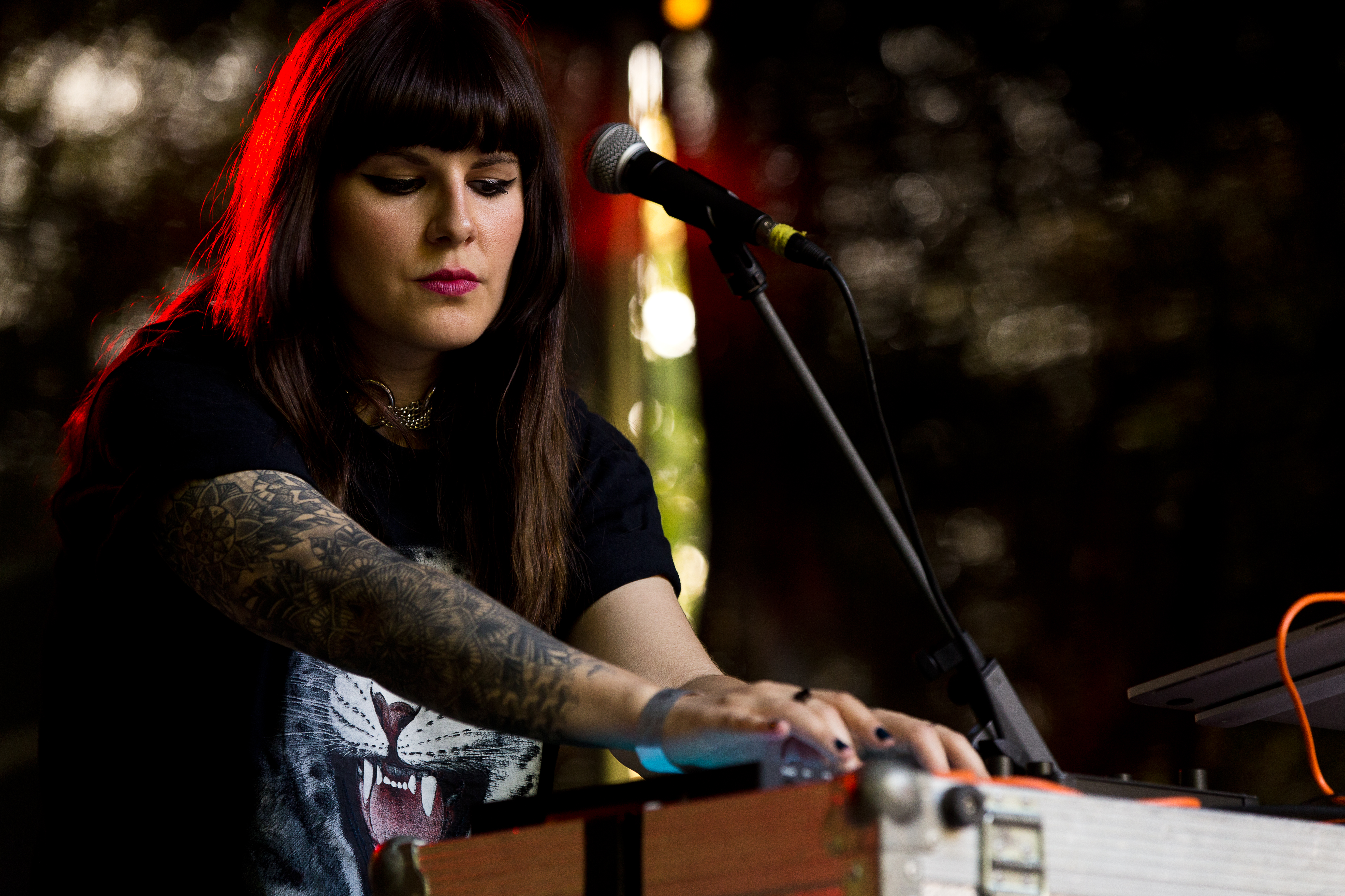 The French synthwave project Hante at the Nocturnal Culture Night 11 2016 in Deutzen/Germany.